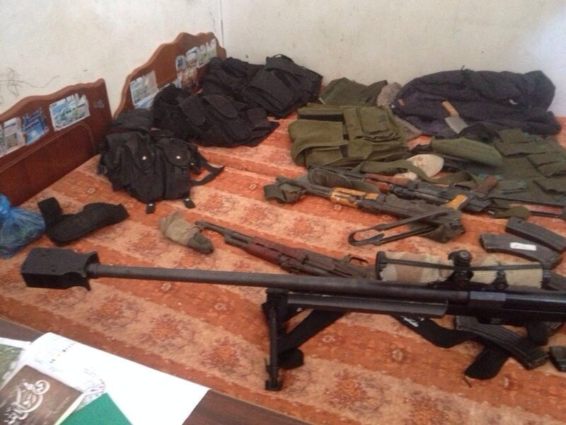 23/7/2014 For more updates: The Israel Defense Forces Facebook The Israel Defense Forces blog Follow us on Twitter